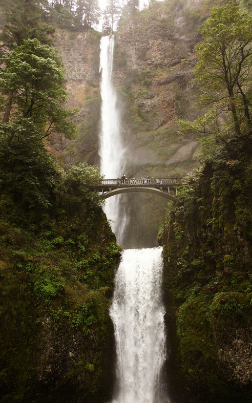 Multnomah Falls, Oregon, United States